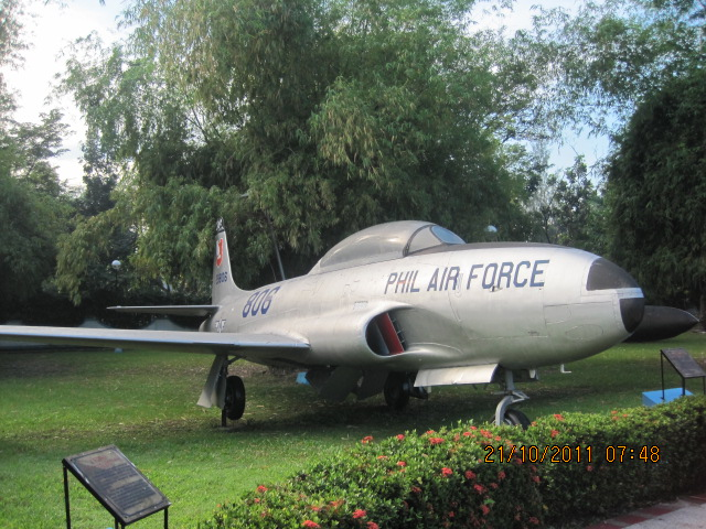 T-33 of PAF